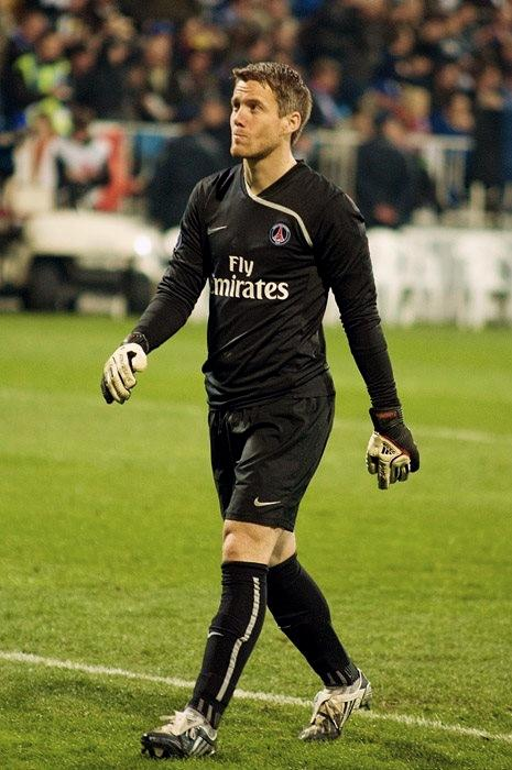 Mickael Landreau